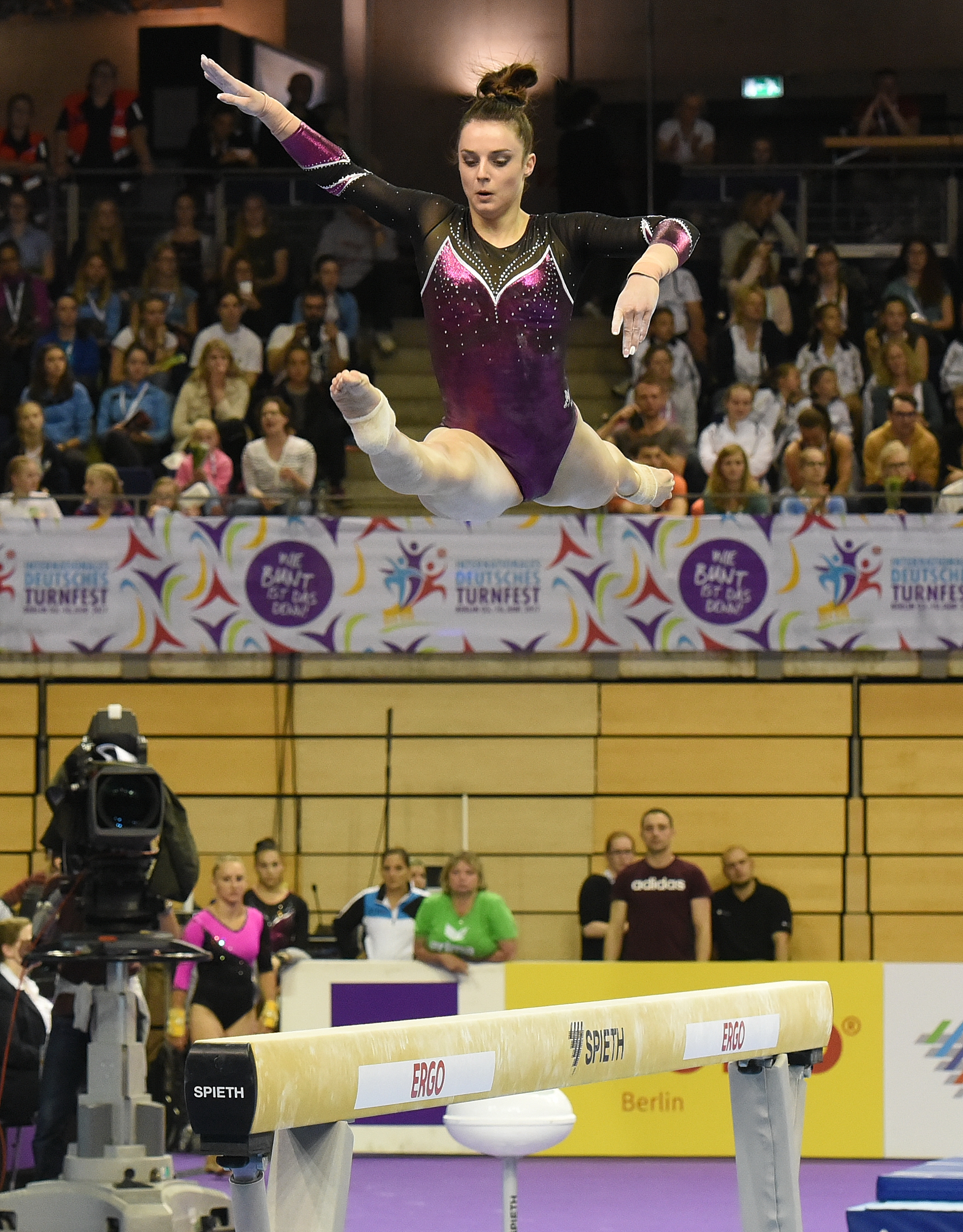 German Championships Gymnastics female Meisterschaften Gerätturnen Mehrkampf weiblich All-around Championships at the International German Gymnastics Festival Berlin 2017. Pauline Schäfer over the balance beam is shown here.